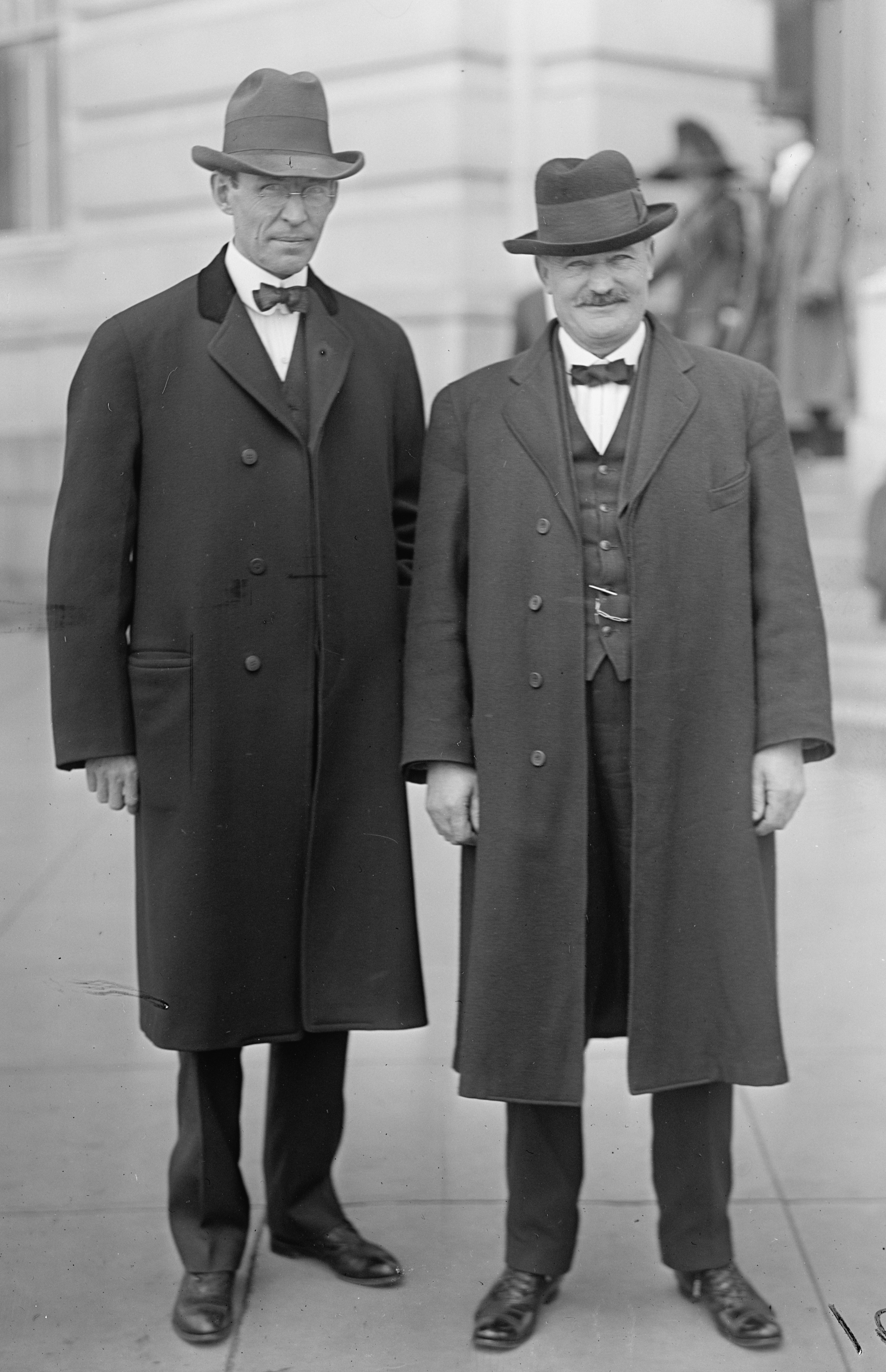 J. Henry Goeke, and James D. Post, congressmen from Ohio, dressed for chilly weather in Washington, D.C.. Glass Negative, 5x7 inches or smaller.